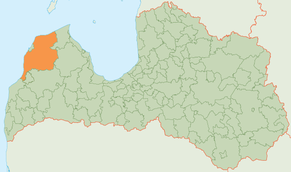 Map of Ventspils municipality, Latvia